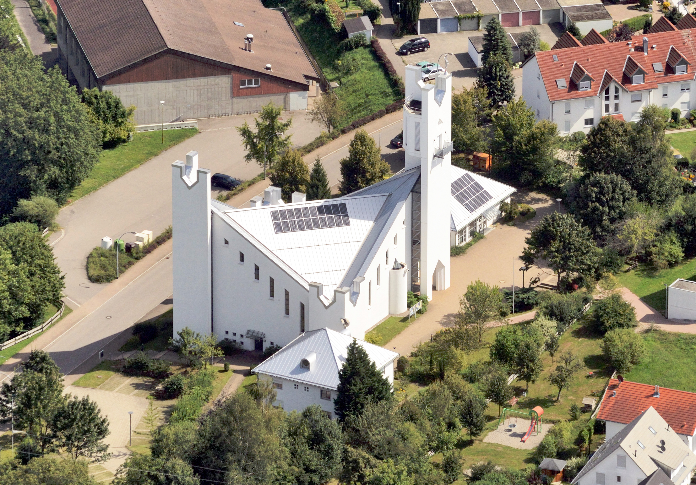 aerial view of Saint Michael Church, Rheinfelden-Karsau